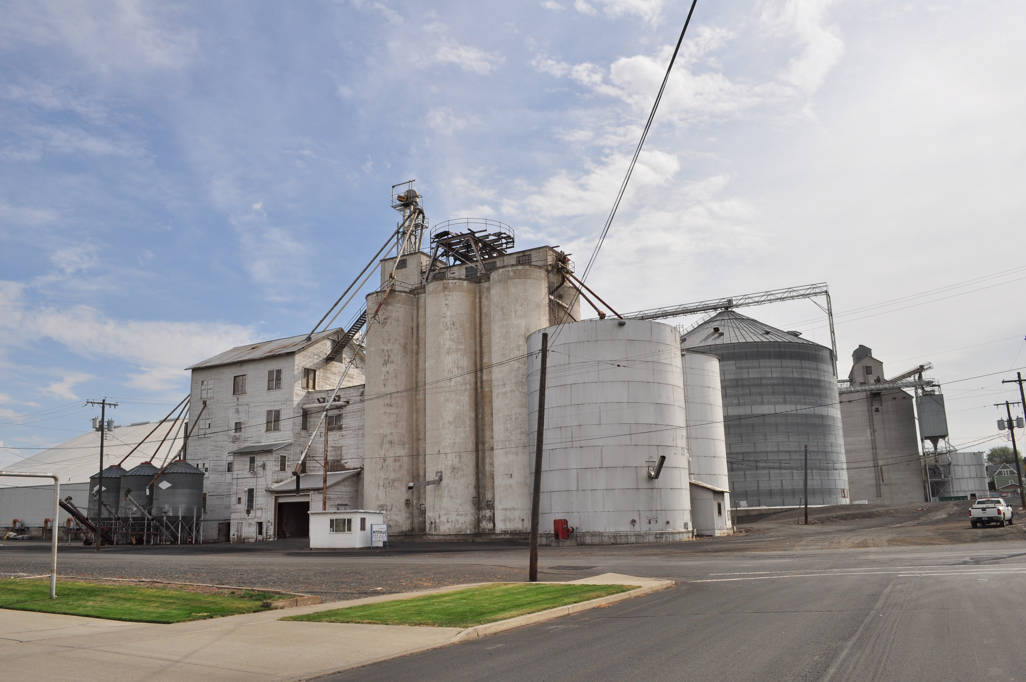 Flour mill, Ritzville, Washington, U.S.